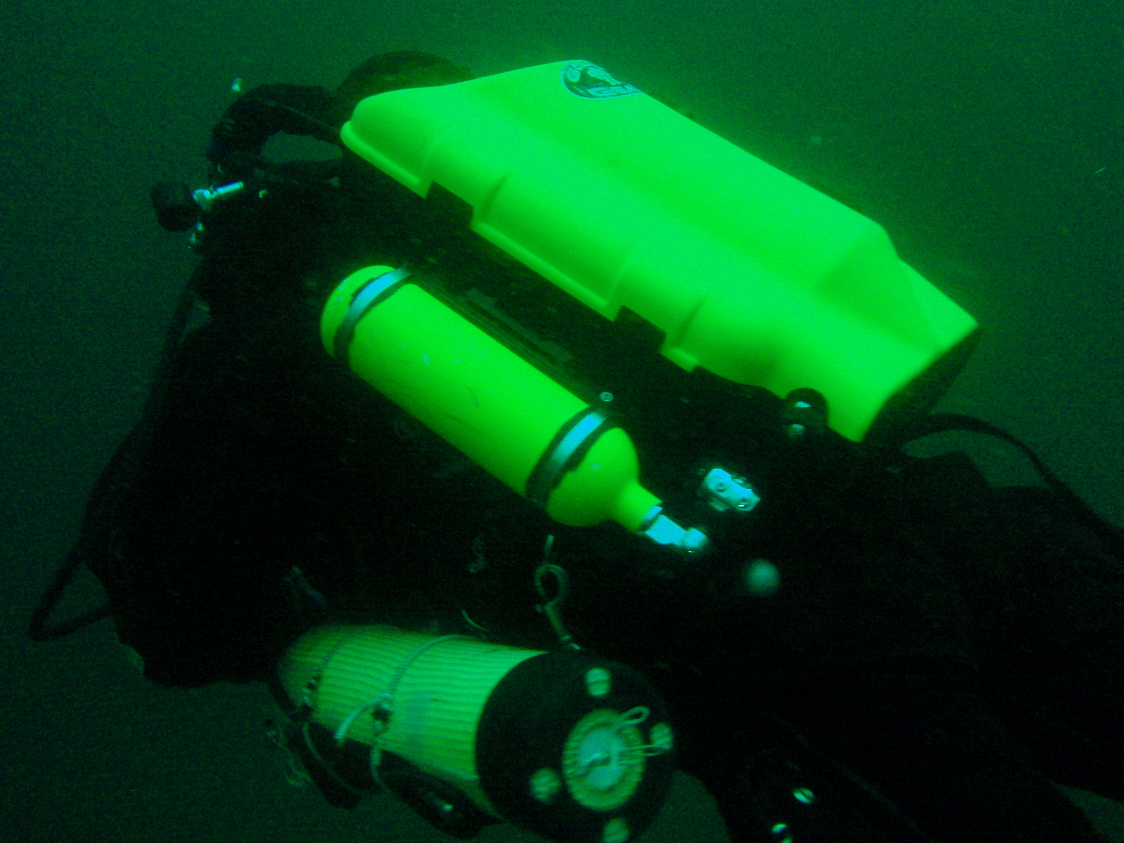 Diver using Inspiration rebreather at the wreck of the MV Orotava in Smitswinkel Bay off the Cape Peninsula